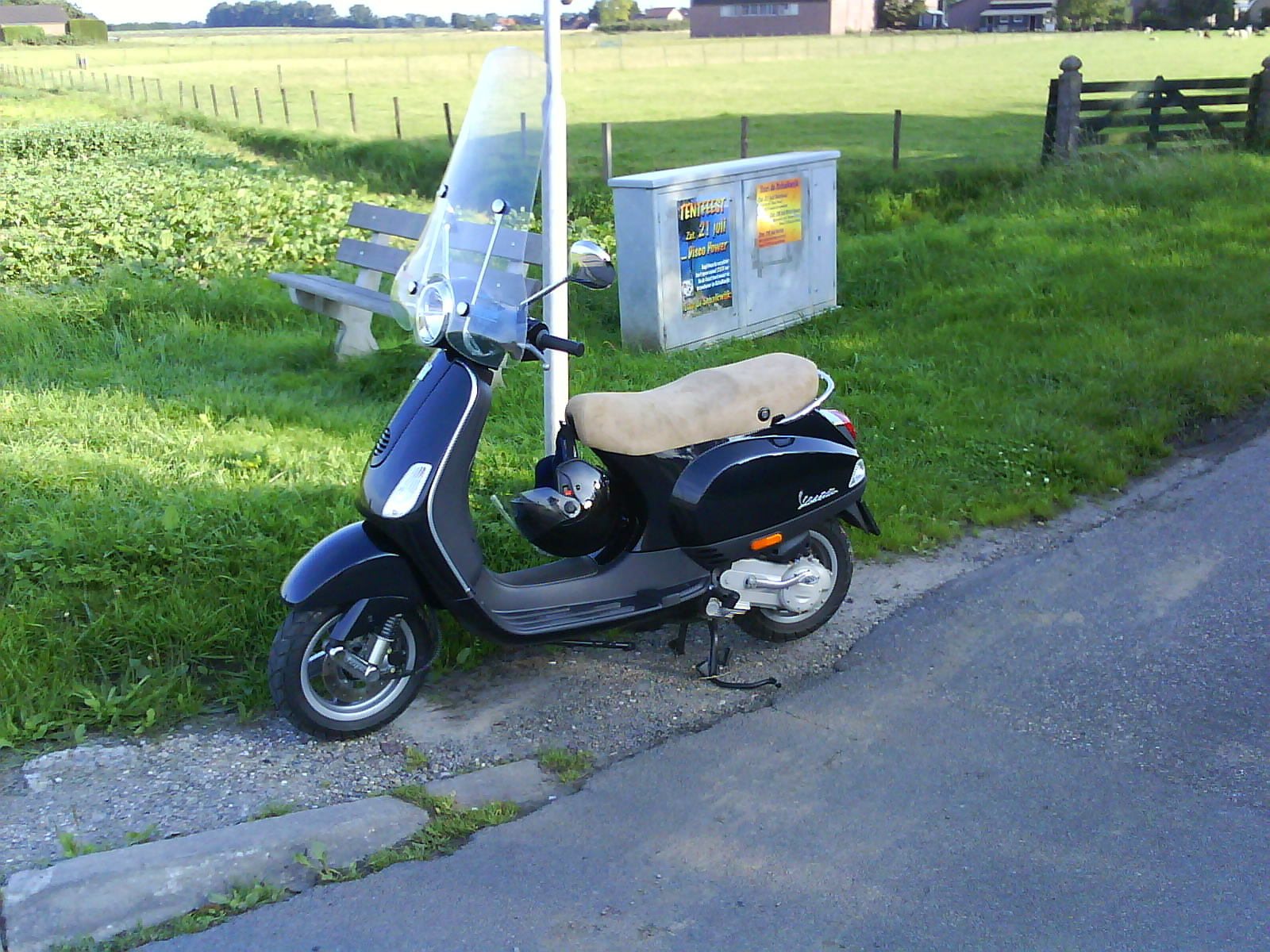 Vespa LX with large windscreen